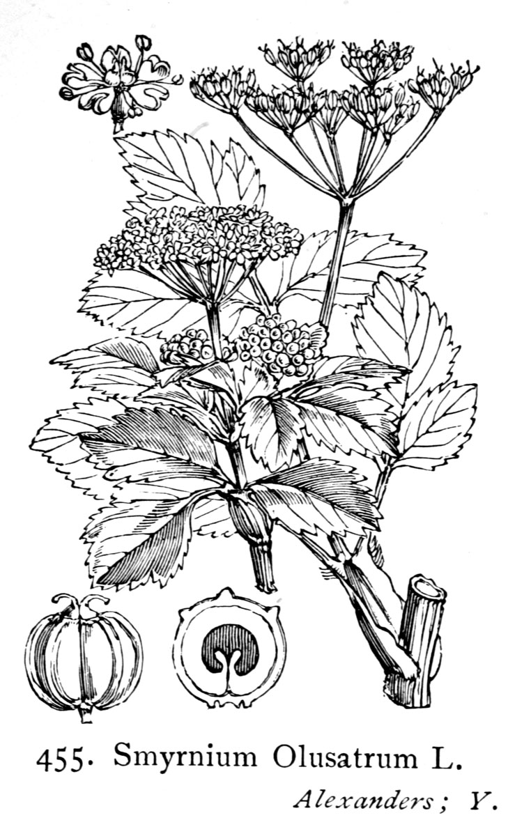 Smyrnium olusatrum